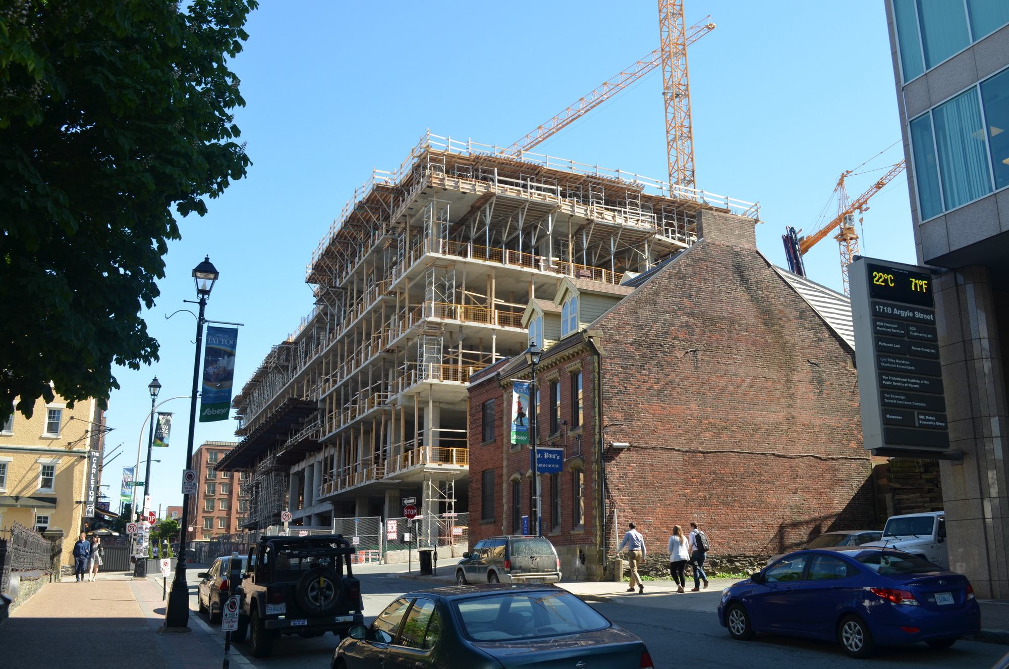 Nova Centre construction site, Halifax, Nova Scotia, June 2015.